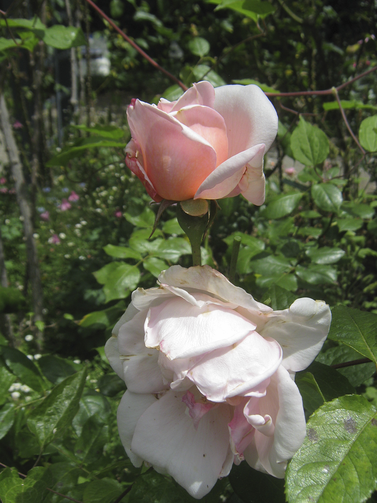 Rose 'Mrs Harold Alston', climber by Alister Clark 1940; Photographed in the Alister Clark Memorial Rose Garden, Bulla, Victoria